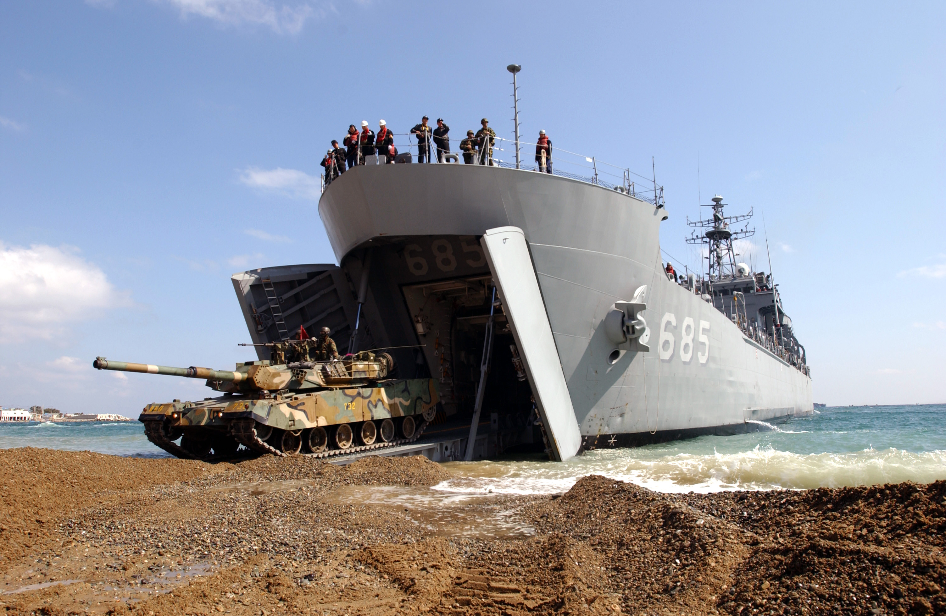 040326-F-0193C-021 Pohang Beach, Korea (Mar. 26, 2004) - A Republic of Korea Type 88 K1 Main Battle Tank drives off the Korean Amphibious Ship [Seonginbong] (LST 685) onto Pohang Beach, Korea, throughout a simulated amphibious attack on Pohang Beach, Korea, during Reception, Staging, Onward Movement, and Integration, and Foal Eagle 2004. The exercise is an annual U.S. and South Korea exercise tailored to evaluate command capabilities to receive U.S. Forces from outside Korea while teaching, coaching, and mentoring exercise participants. U.S. Air Force photo by Staff Sgt. D. Myles Cullen. (RELEASED)